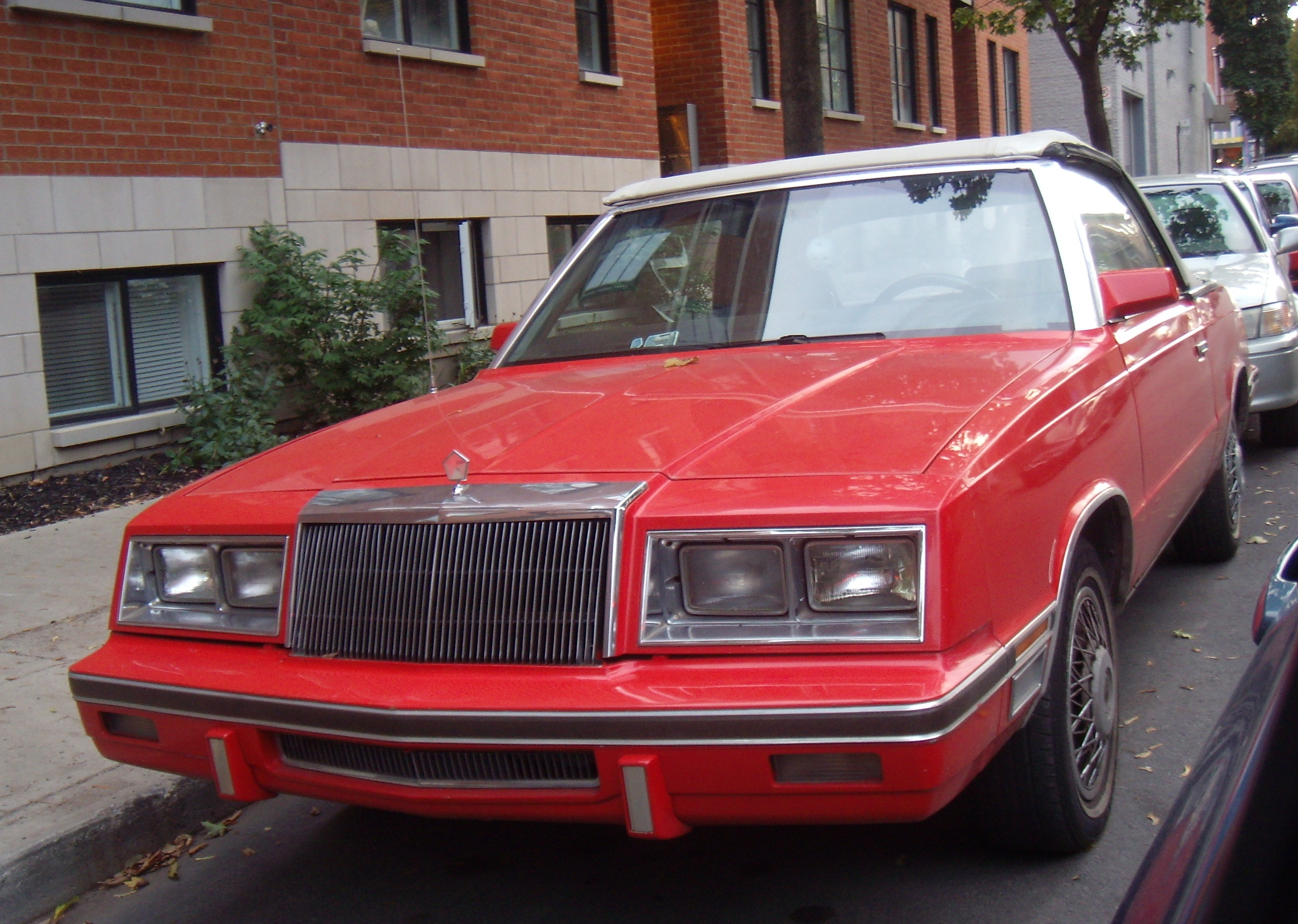 1983-1984 Chrysler LeBaron photographed in Montreal, Quebec, Canada.